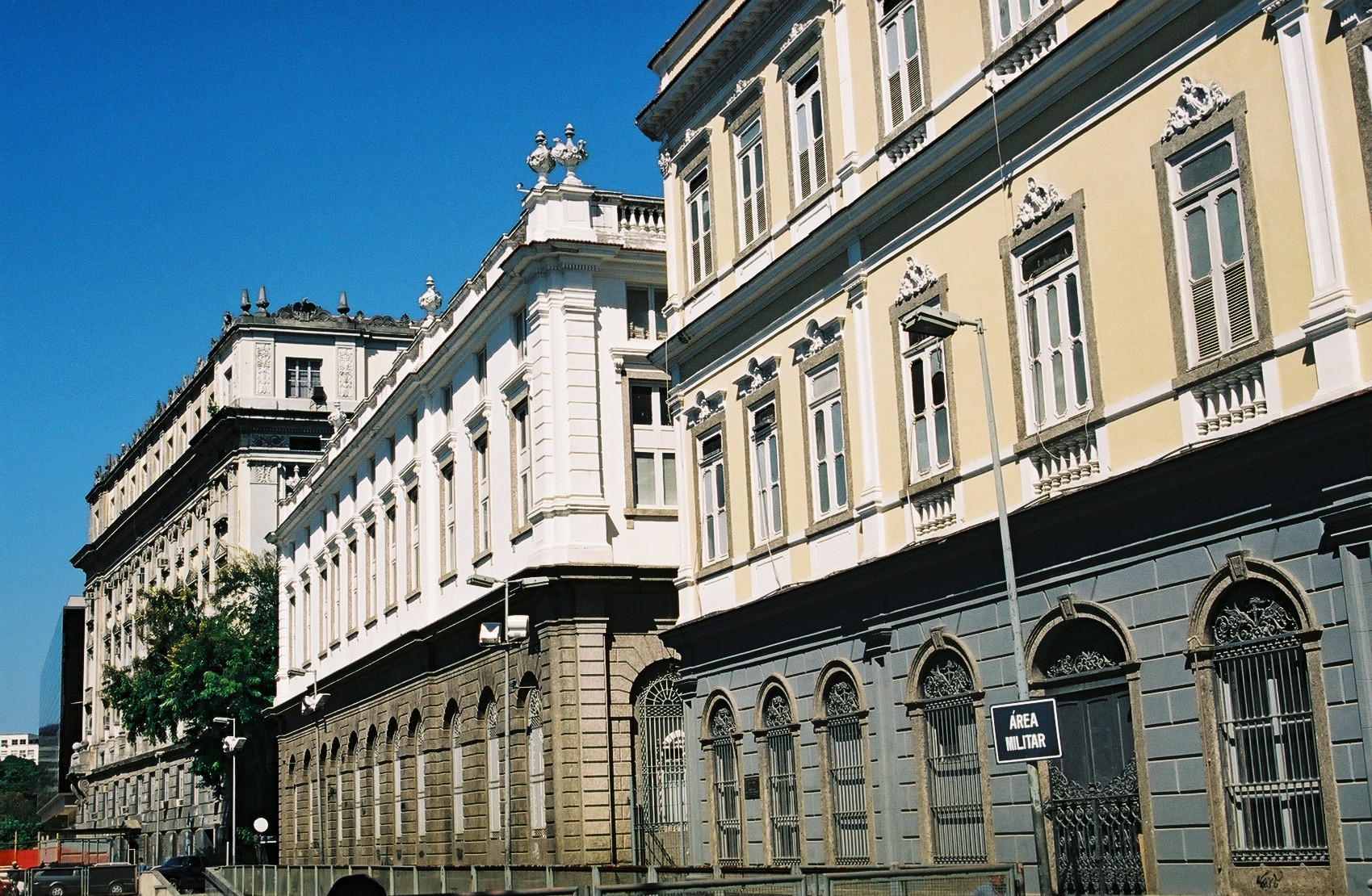 Old buildings in the centre of Rio de Janeiro, Brazil